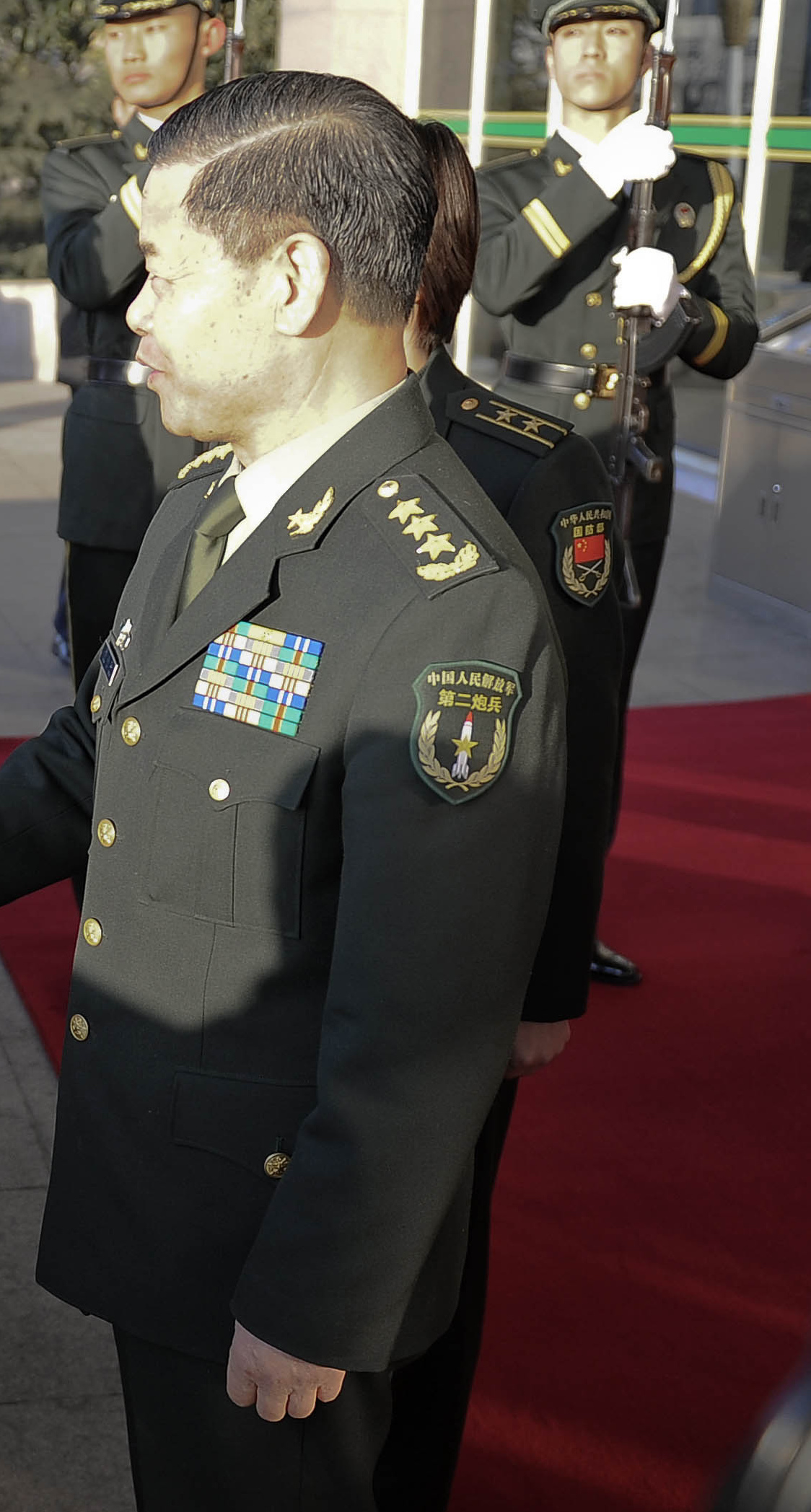 Secretary of Defense Robert M. Gates is greeted by Chinese Commander, 2nd Artillery Group Gen. Jing Zhiyuan at their facility in Qinghe, China, on Jan. 12, 2011. Gates wrapped up a 4-day trip to China by visiting the People's Liberation Army 2nd Artillery Group and the Great Wall.